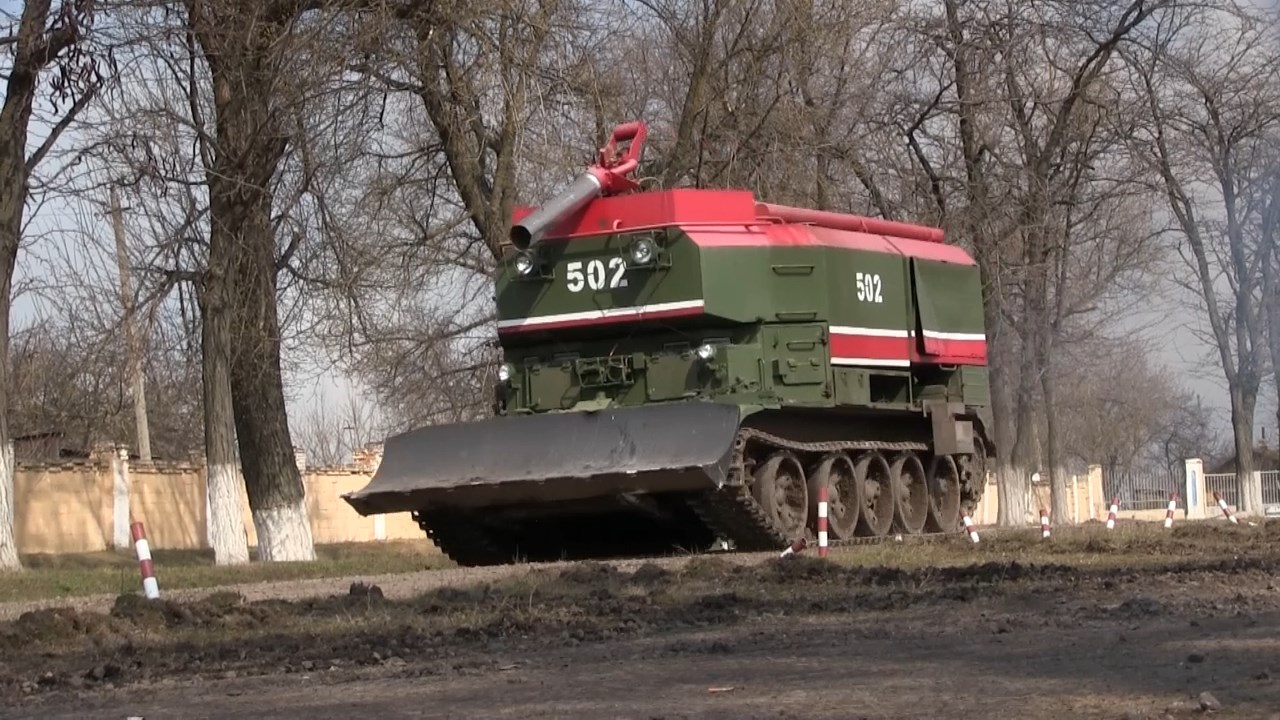 Dealing with the consequences of the explosion at the ammunition depots in Balakliia (March 2017)